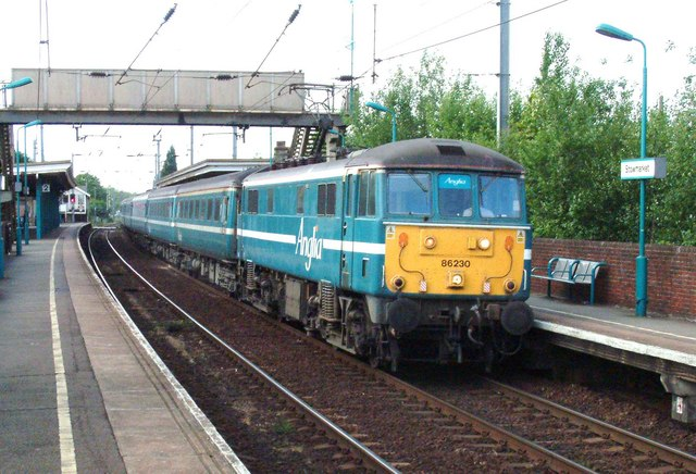 Stowmarket Station, near to Stowmarket, Suffolk, Great Britain. A Norwich to London Liverpool Street arrives at Stowmarket station. At this time the passenger railway was run by " Anglia" franchise and these were the colours they painted the rolling stock .